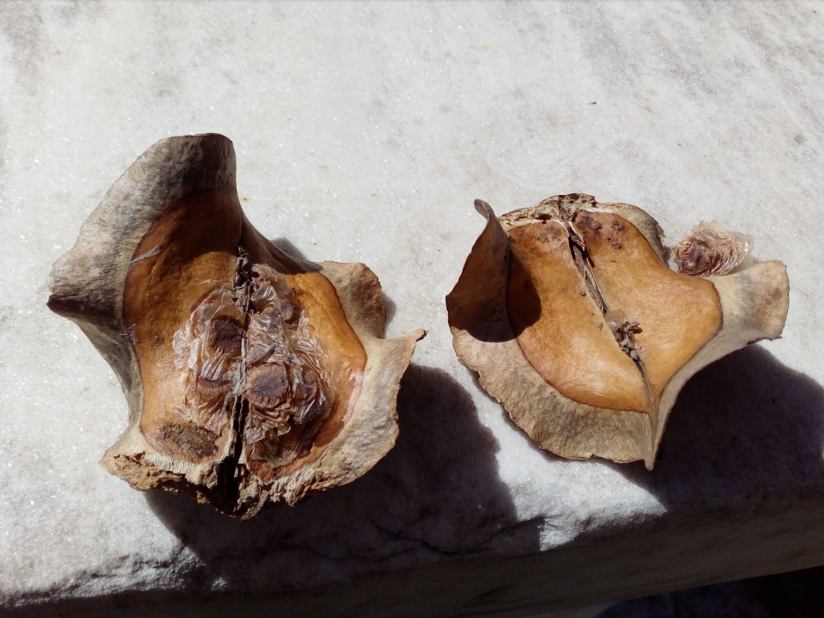 Jacaranda seeds